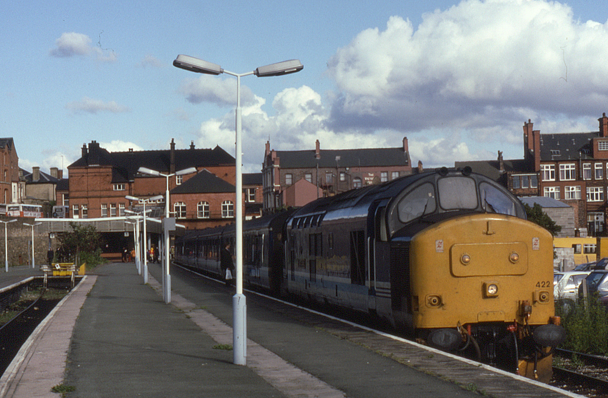 During the 1990s class 31/4s and 37/4s were assigned some peak hour workings in the north west. Seen here on 30 July 1993 at Wigan Wallgate is 37422 "Robert F. Fairlie" on 1F01, 17:30 Manchester Victoria to Southport. Nicknamed "club trains", these provided a little better quality in Mk1 early Mk2 stock.